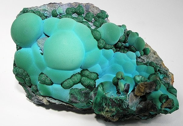 Chrysocolla, Malachite Locality: Katanga (Shaba), Democratic Republic of Congo (Zaïre) (Locality at ) Size: 12.5 x 7.9 x 4.4 cm. This is an unusually fine combination of botryoidal chrysocolla - silky smooth and pristine - with smaller balls of sparkly malachite.